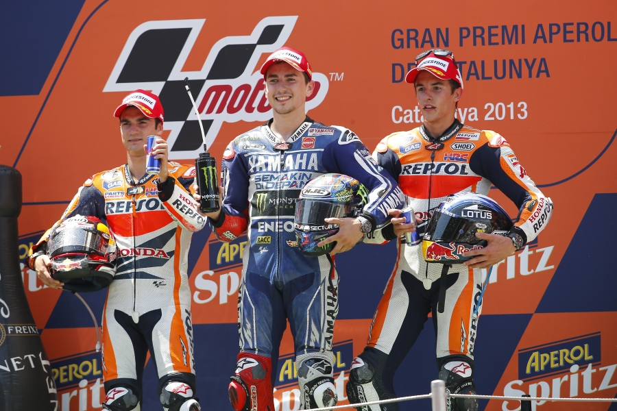 Dani Pedrosa, Jorge Lorenzo and Marc Márquez, celebrating on the podium after finishing in second, first and third place at the 2013 Catalan Grand Prix.